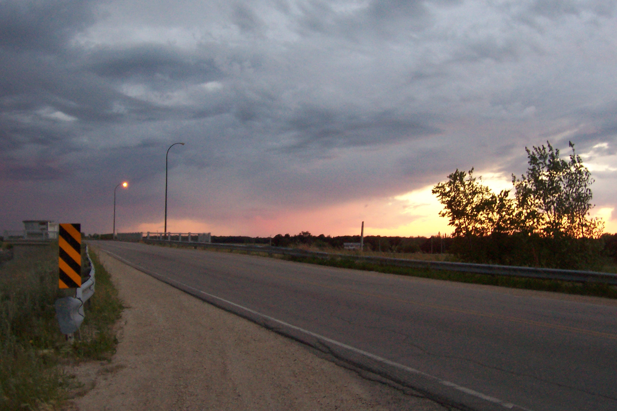 Bridge over the control gates. Located at the inlet to the floodway channel. Taken by myself, released to public domain.